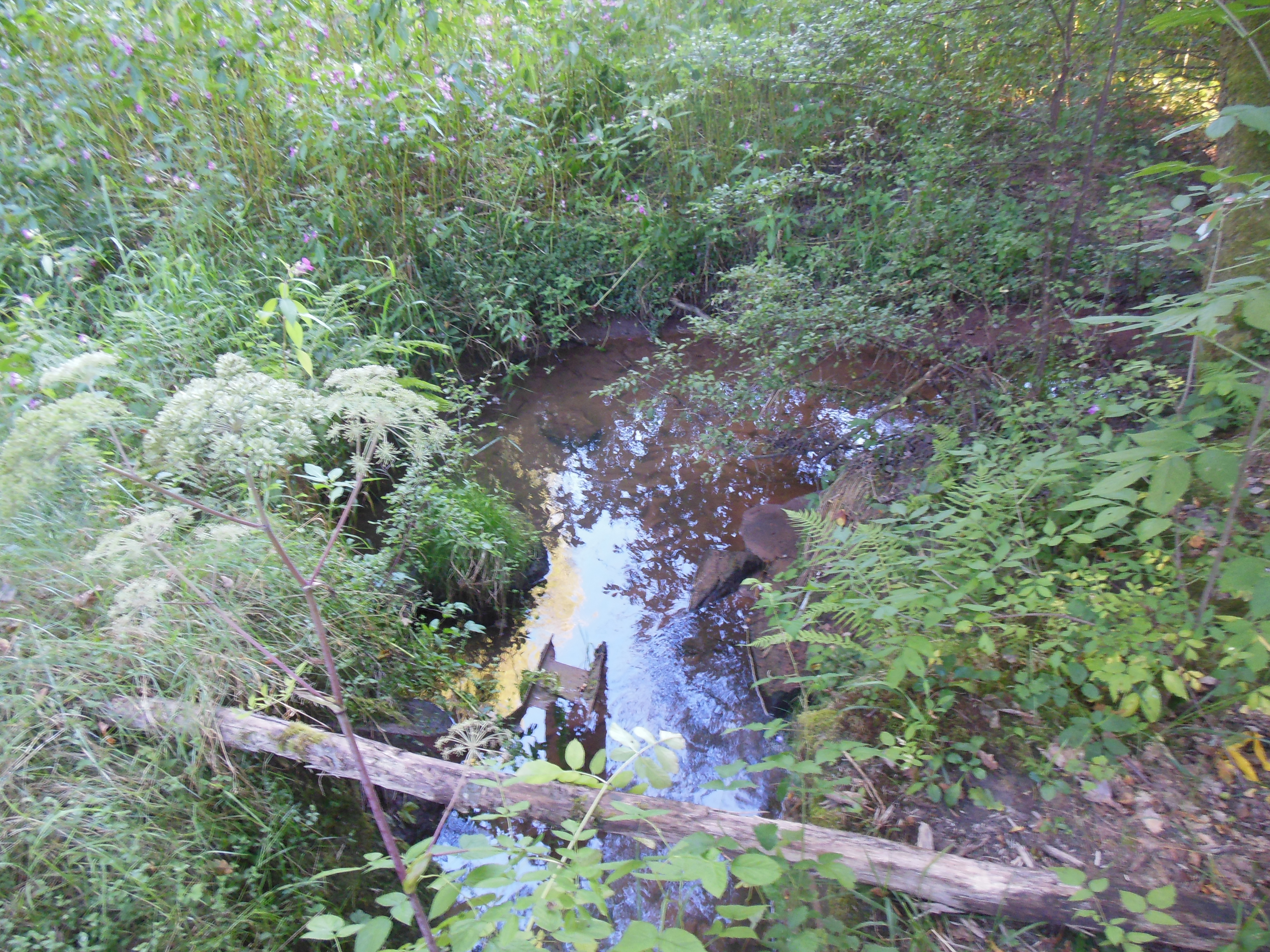 The Meisenthal Brook